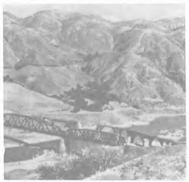 Bridge in Balu city